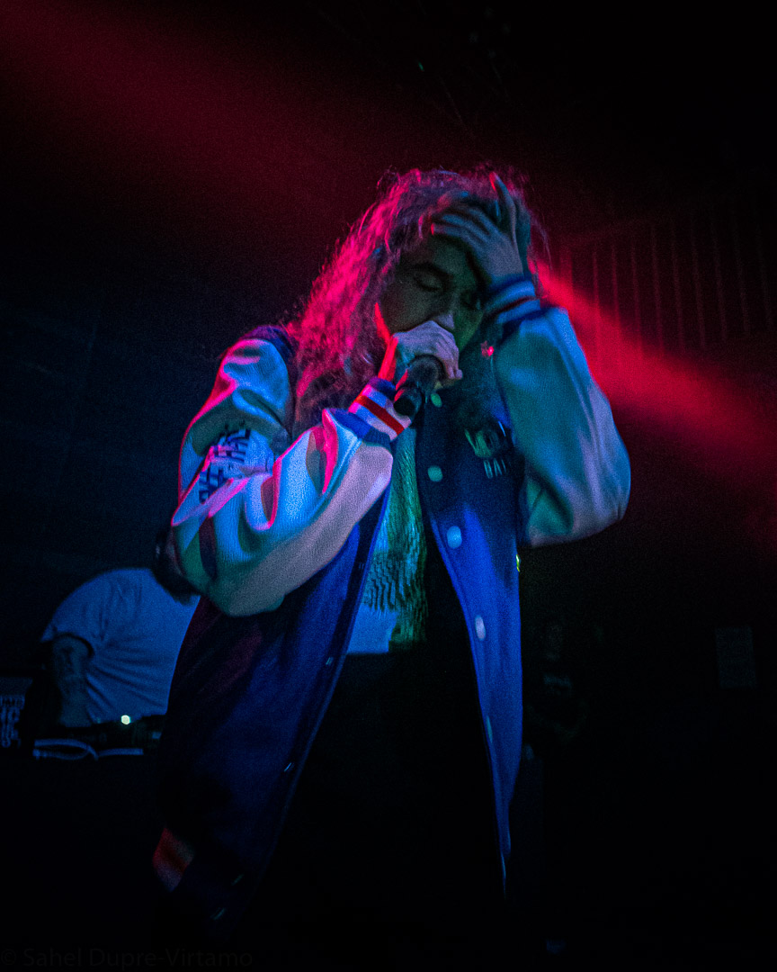 Pouya at his first Australian Tour in September 2019